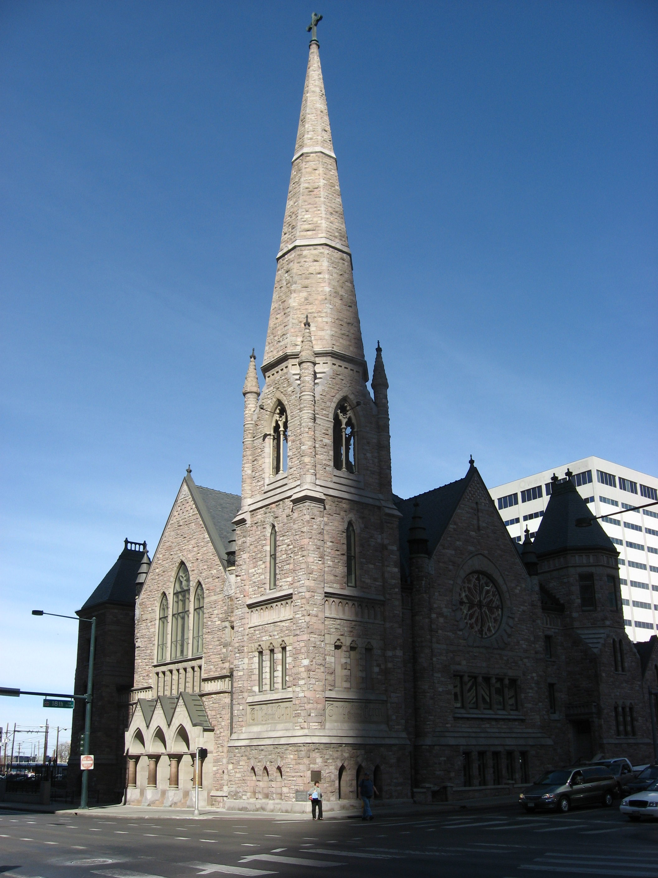 Trinity United Methodist Church, located at the intersection of Broadway and Eighteenth Avenue in Denver, Colorado, United States. Built in 1887, it is listed on the National Register of Historic Places.